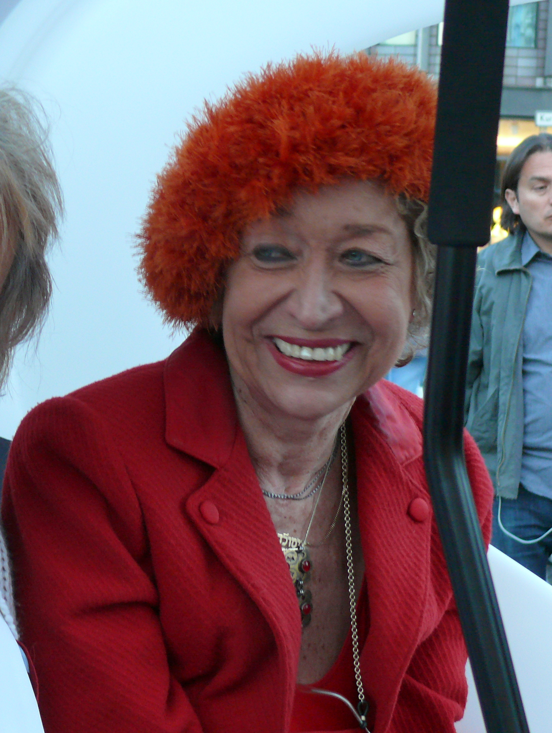 Isolde Josipovici Berlins Brunnenfee bei der Veranstaltung 125 Jahre Kurfürstendamm